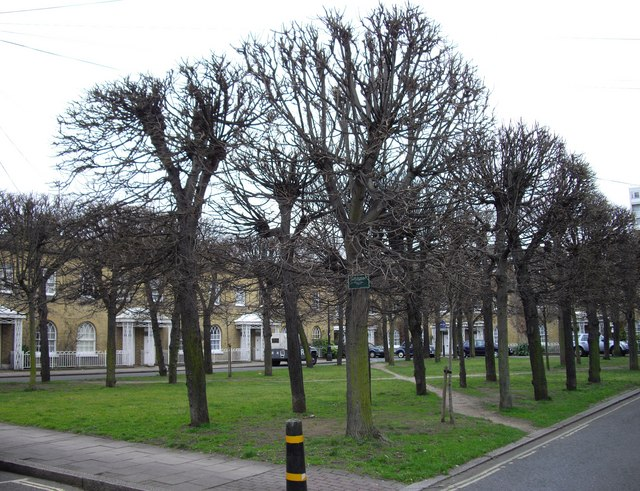 Courtenay Square Picture taken from Cardigan Street